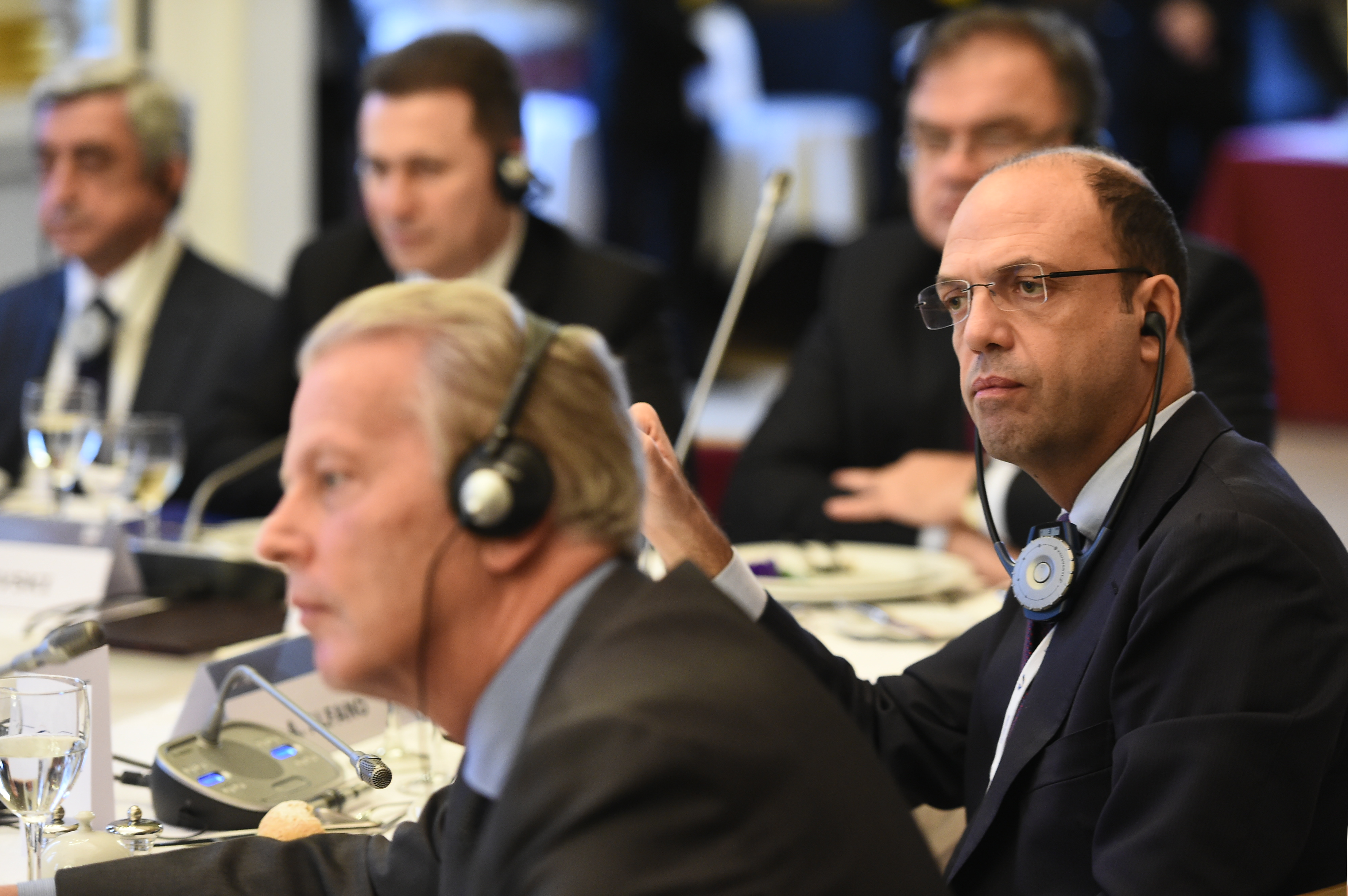 European People's Party